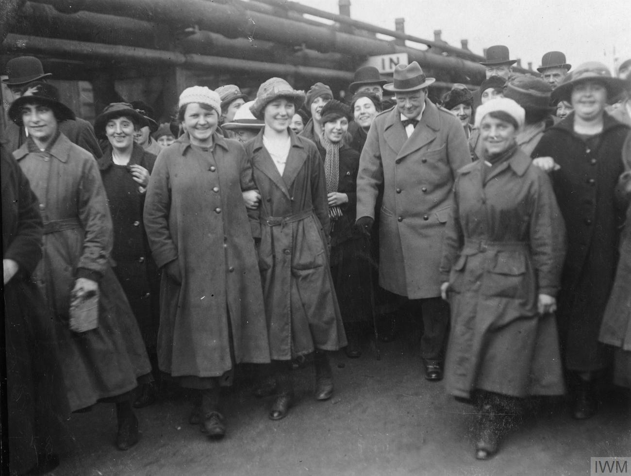 War Industry during the First World War The Minister of Munitions Winston Churchill is escorted through the yard of Georgetown's filling works near Glasgow by female workers during a visit on 9 October 1918.